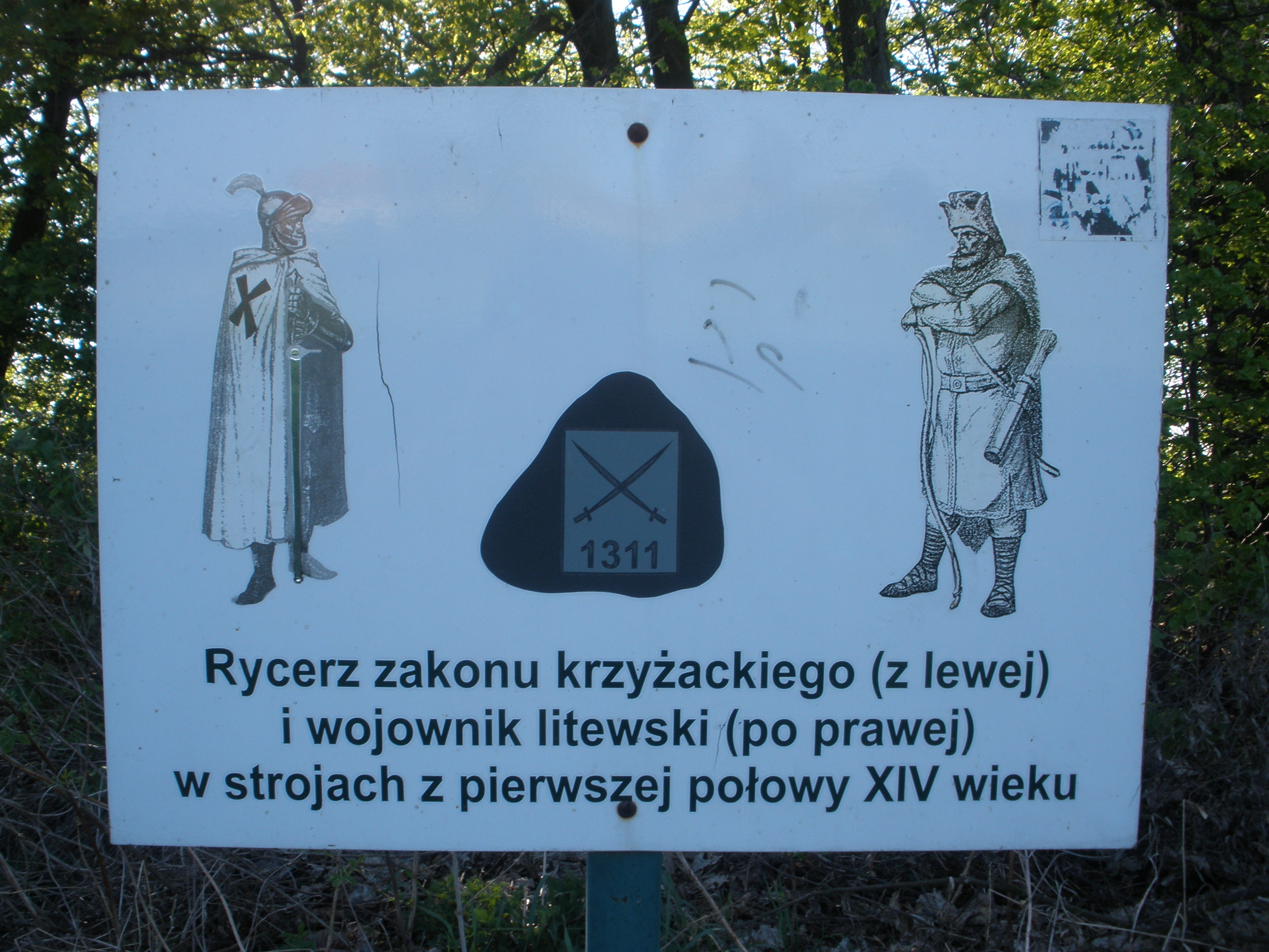 Commemorative plaque of battle in 1311, between Teutonic Knights and lithuanian forces.